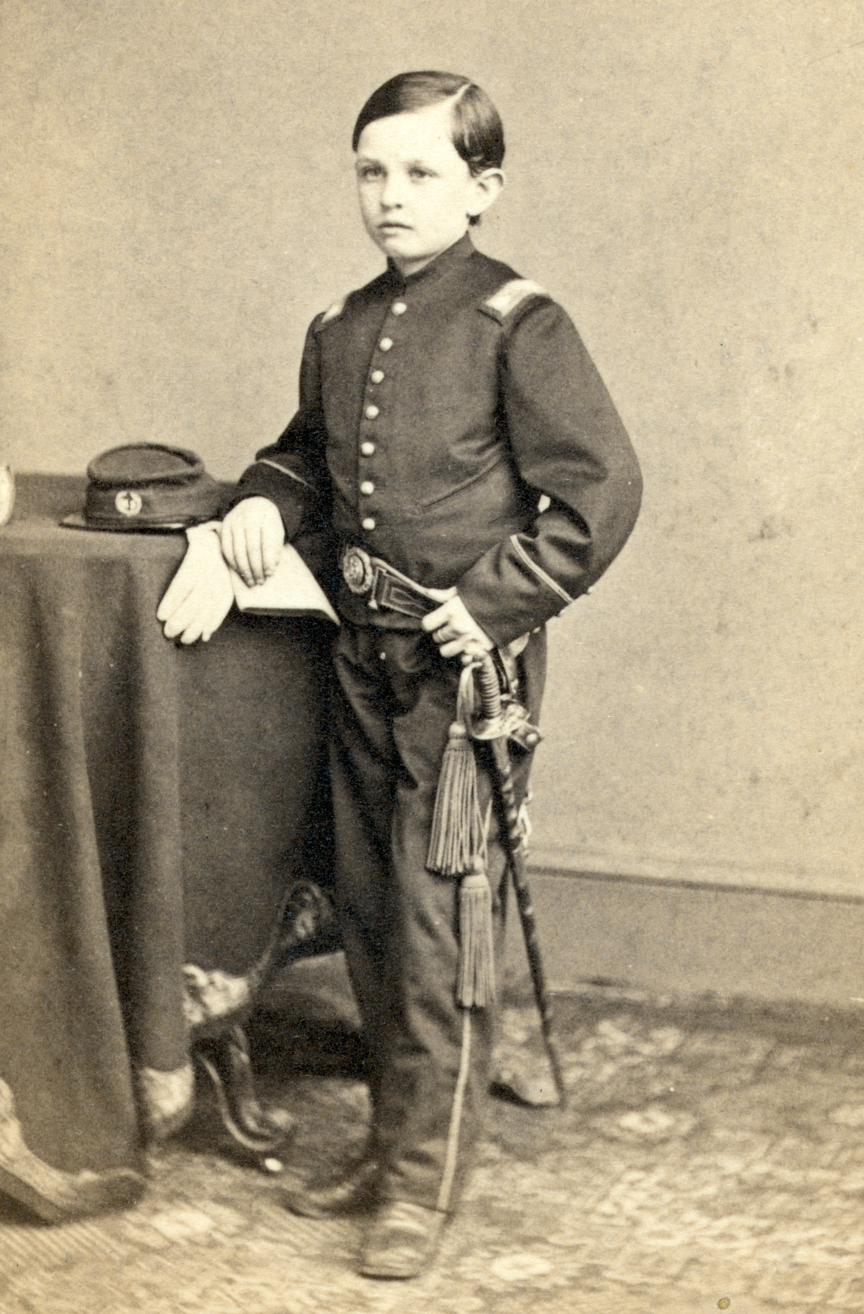 Photograph showing portrait of Tad Lincoln, standing, wearing a military-style uniform. Albumen, on carte de visite mount ; 10 x 6 cm. Cropped, histogram fix